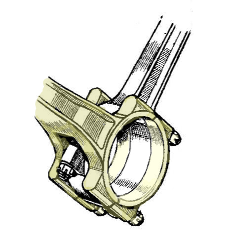 Forked connecting rods (Autocar Handbook, 13th ed, 1935).jpg